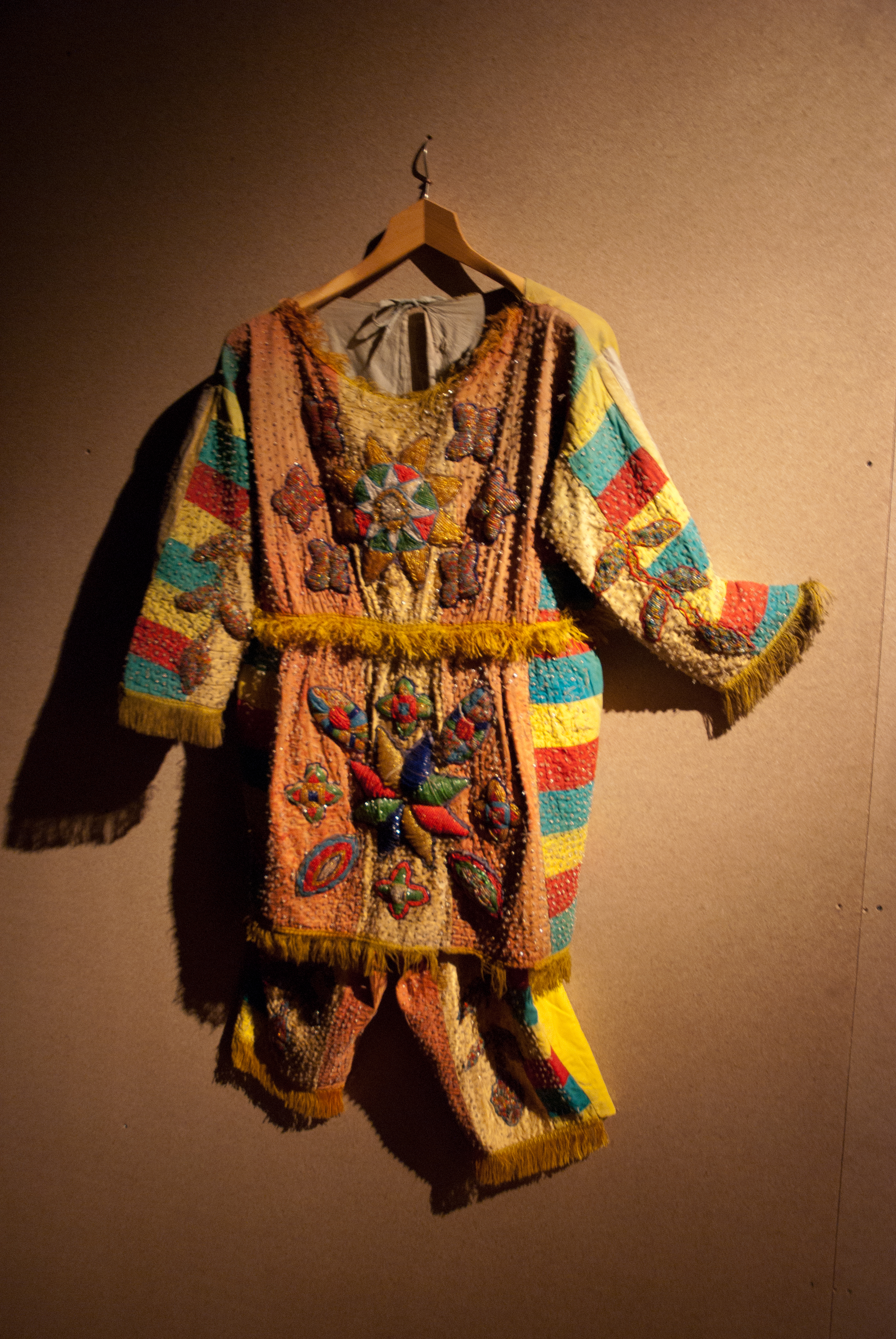 Antique ceremonial suit for Haitian Vodou (Voudun), exhibit at Ethnological Museum of Berlin, Germany